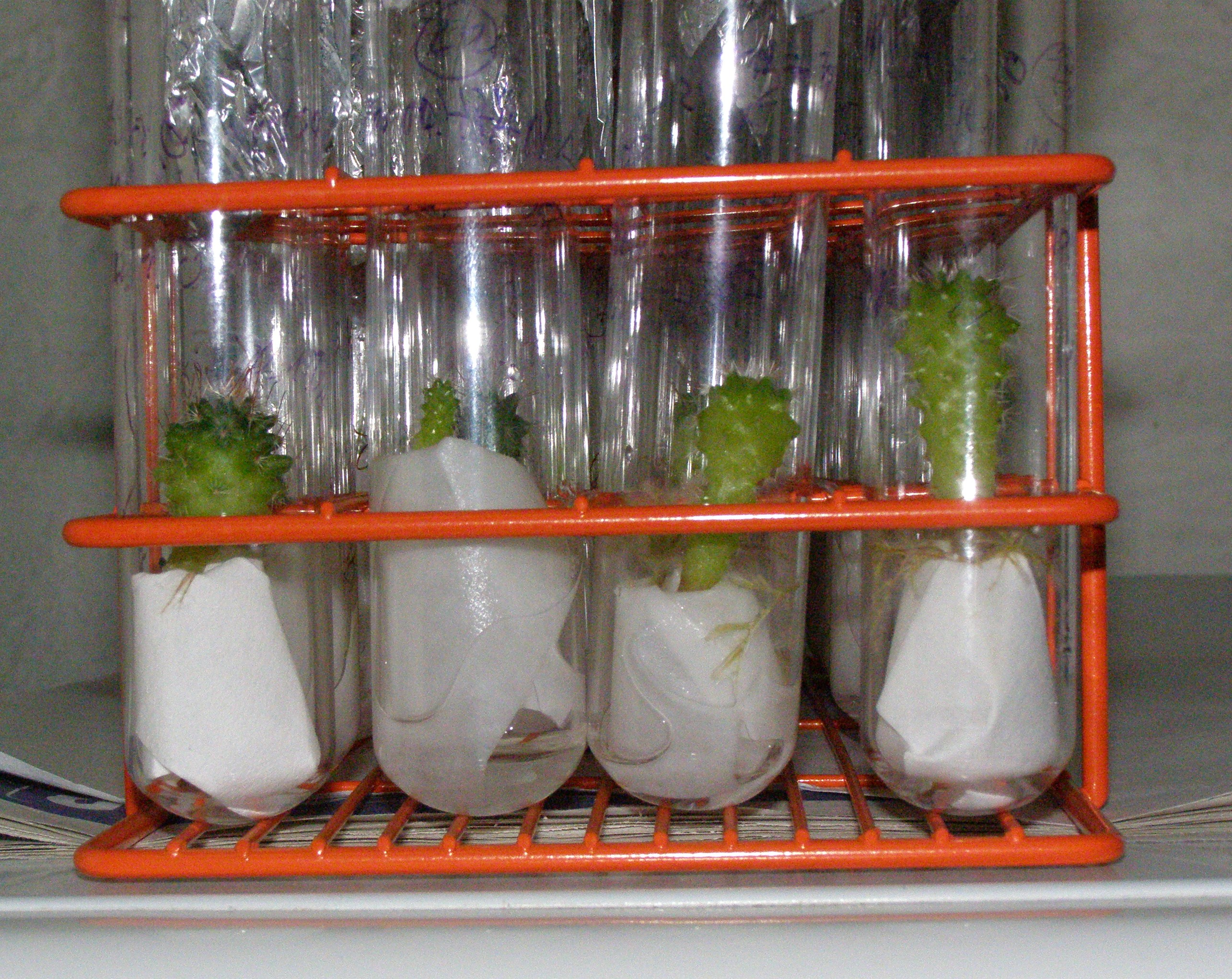 Some mamilarias in test tubes, placed on filter paper in liquid MS media. Česky: Různé druhy mamilárií ve zkumavkách na filtračním papíru, v tekutém MS médiu.